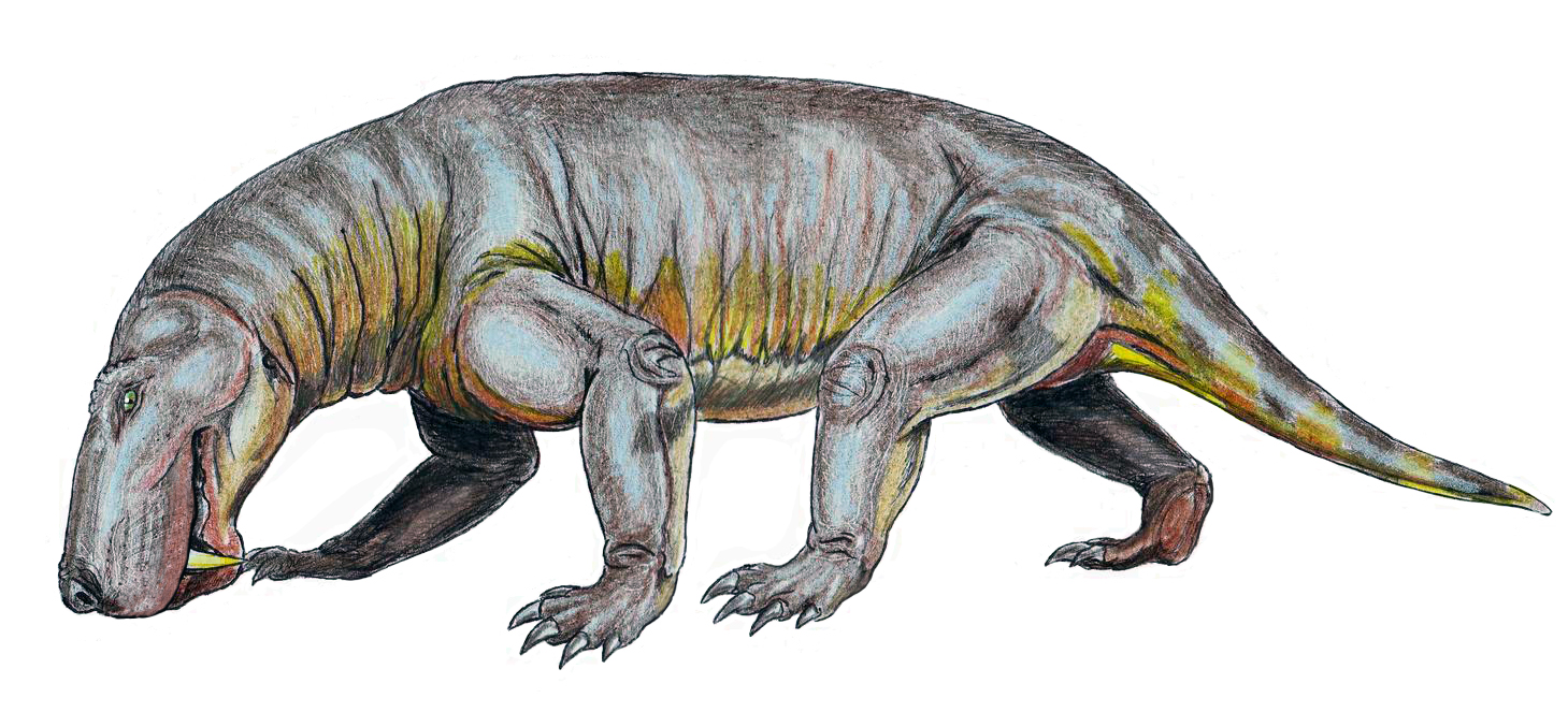 Rubidgea atrox (formerly Clelandina laticeps)